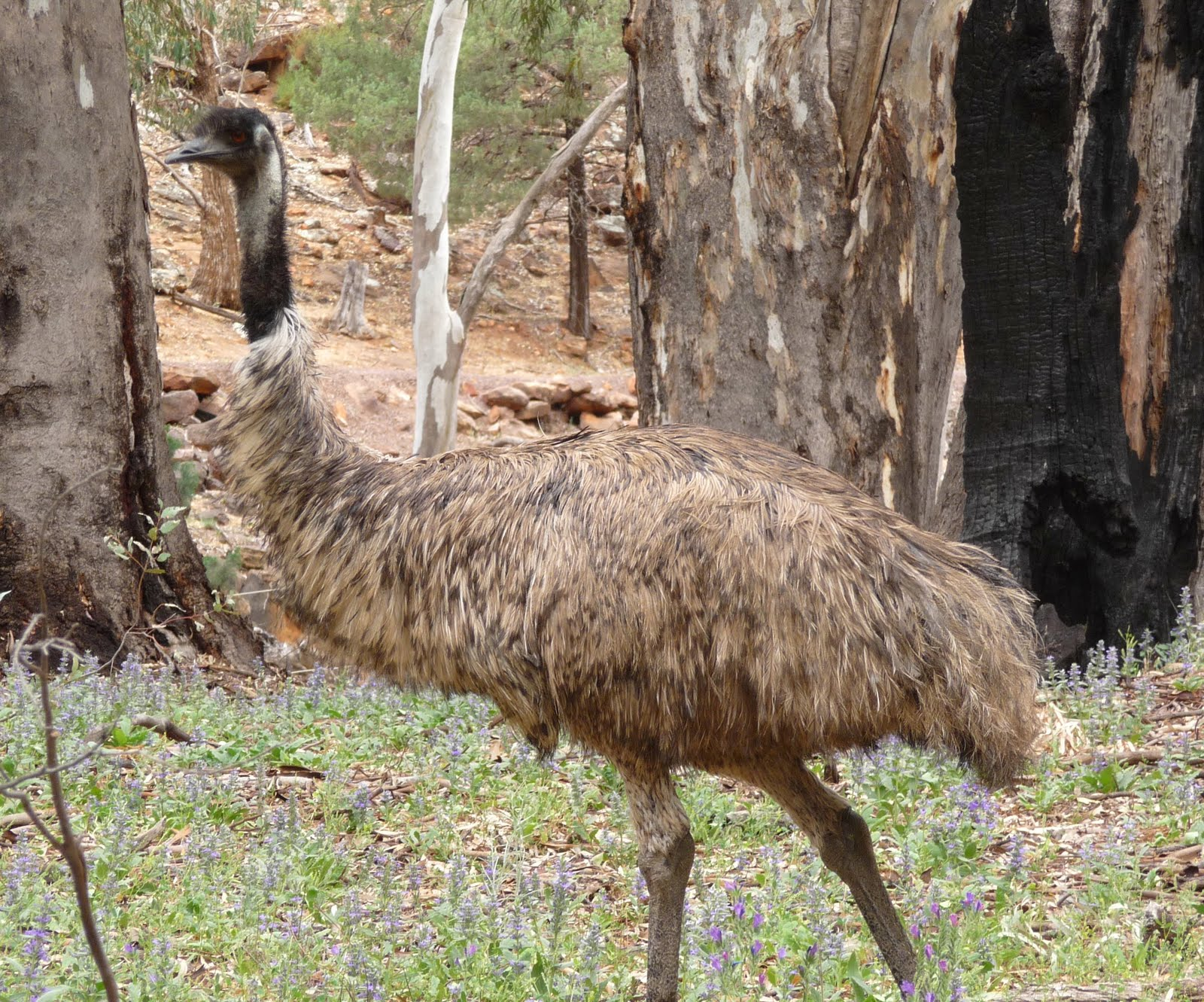 Emu (Dromaius novaehollandiae), Wilpena Pound, Flinders Ranges, South Australia, Australia